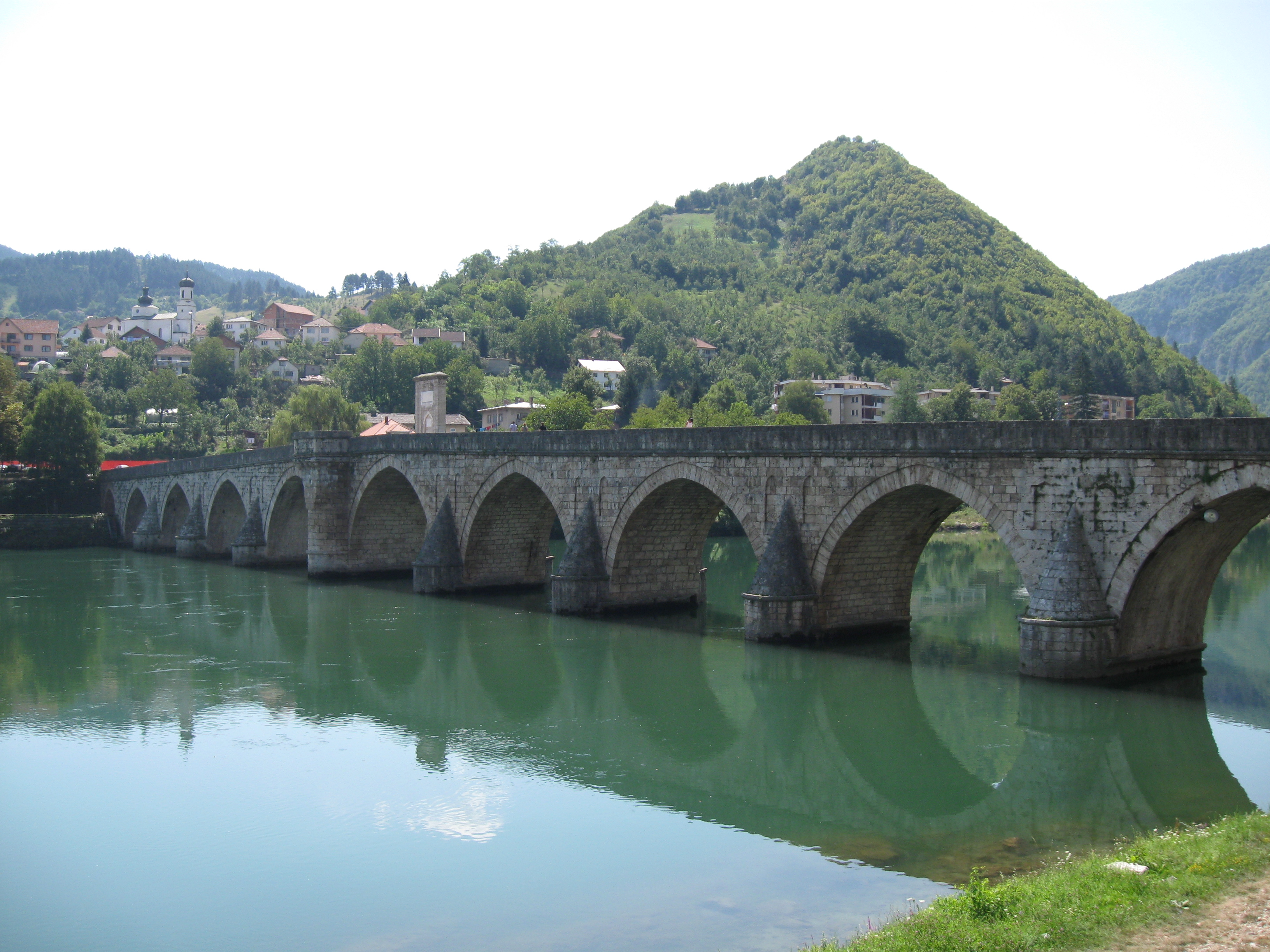 Cuprija This image was uploaded as part of Trace of Soul 2015.